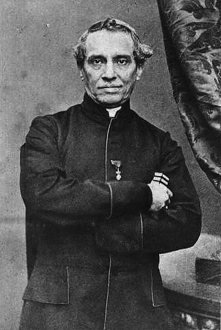 Giacomo Antonelli